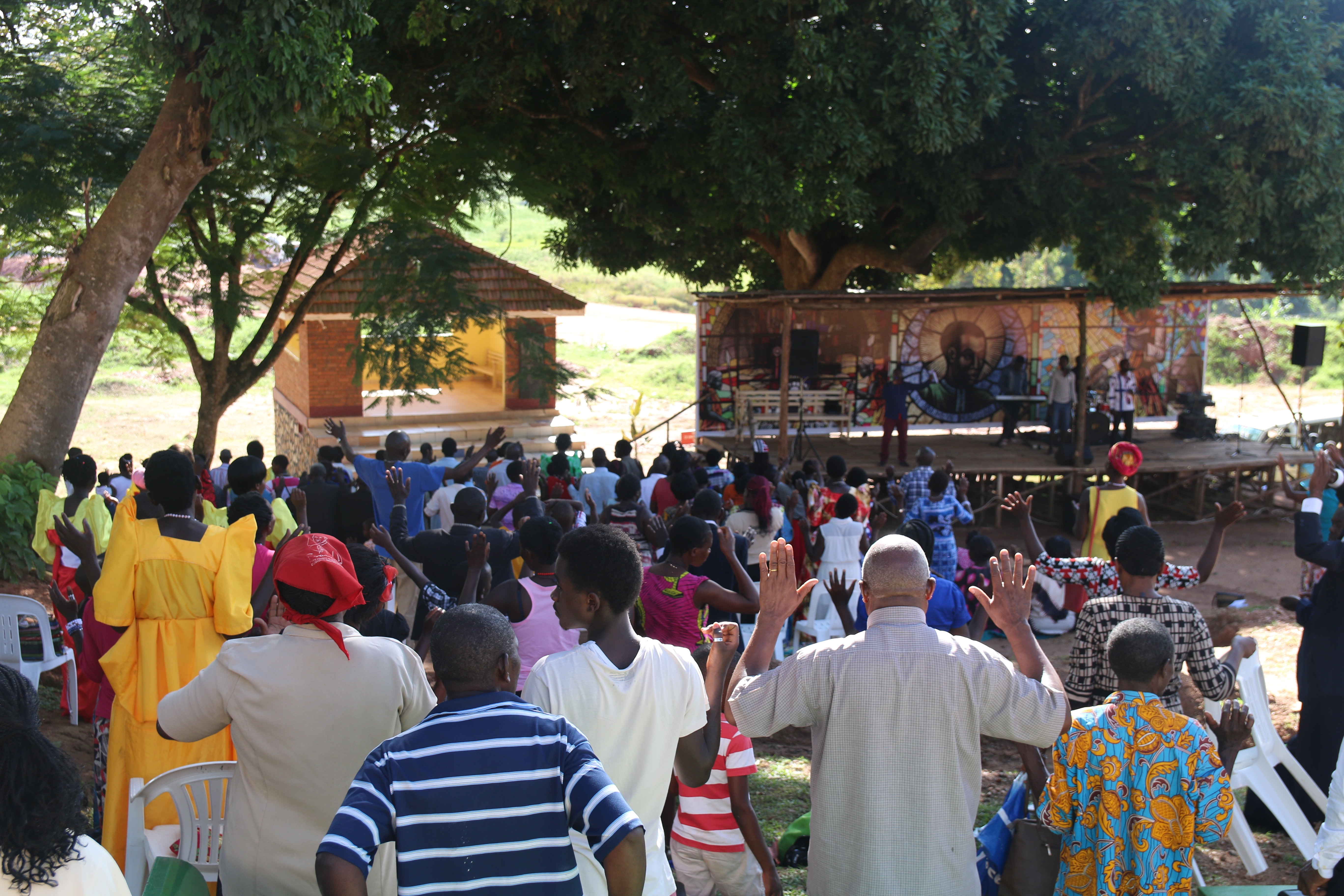 Tomb of St. Andrew Kaggwa martyred on 26th May 1886 at Munyonyo (Kampala) by King Mwanga of Buganda.